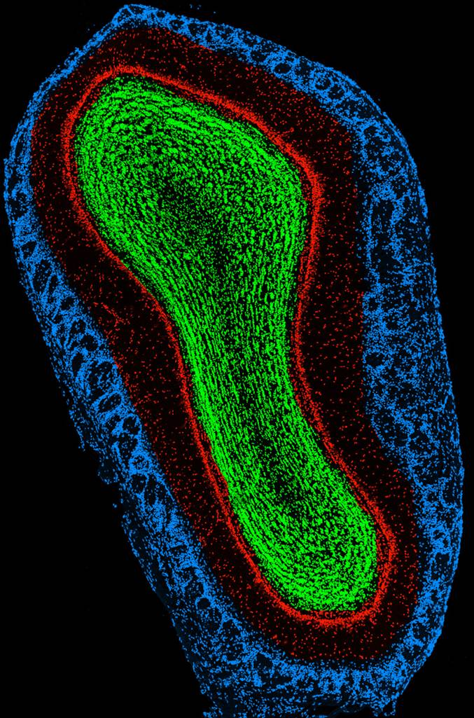 A coronal section through the main olfactory bulb of an adult male mouse (strain: C57BL/6j).Image taken with a confocal microscope visualizing all cell nuclei with stain TOTO-3. False color applied with photoshop to indicate the three main anatomical layers: Blue - Glomerular layer containing periglomerular (juxtaglomerular cell bodies), Red - External Plexiform layer and Mitral cell layer containing cell bodies of mitral and tufted cells (and granule cells resident in mitral cell layer), Green - Internal plexiform and granule cell layer containing cell bodies of immature migrating neuroblasts, and mature granule cells.